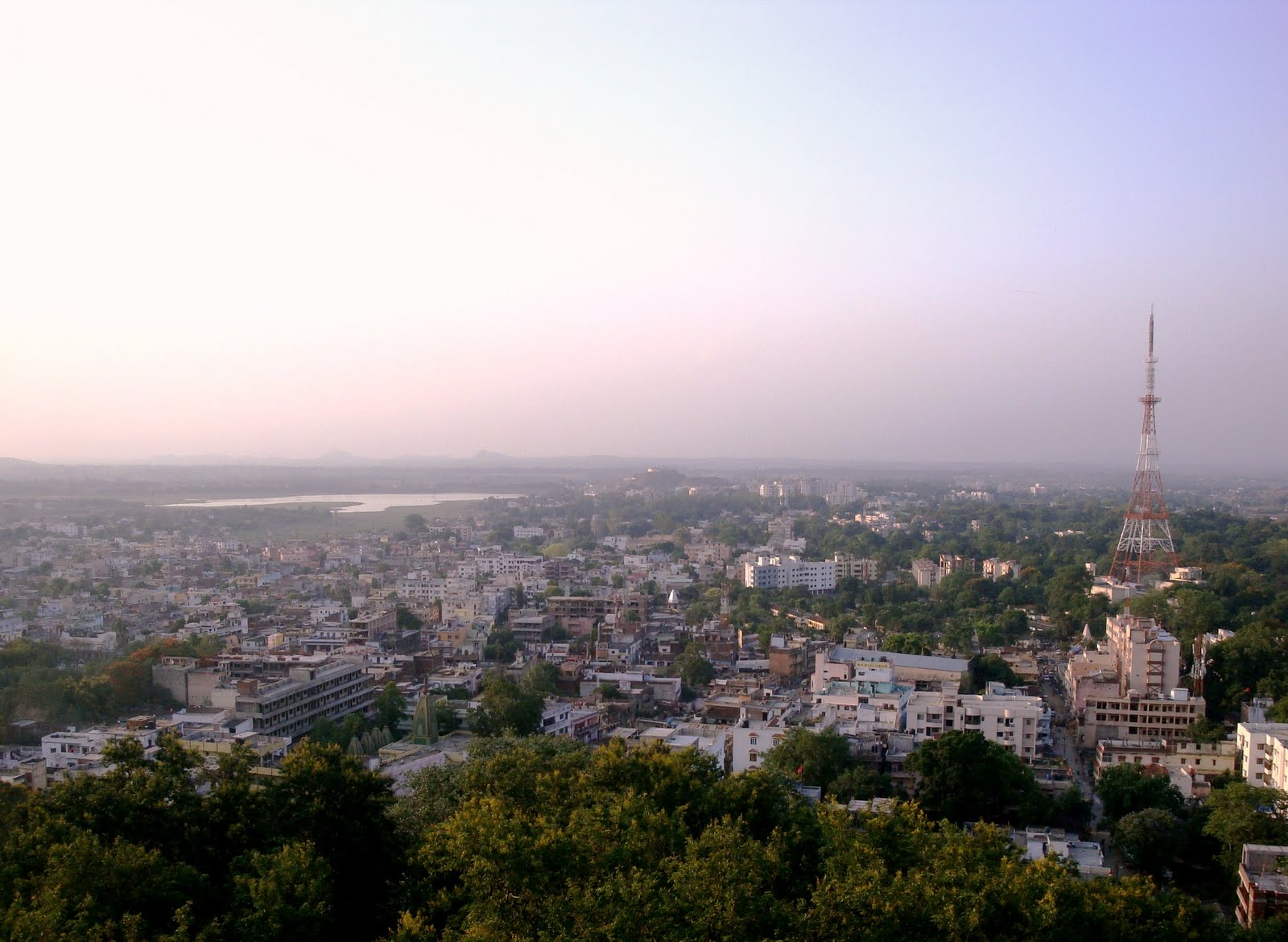 One of Tourism place in Ranchi